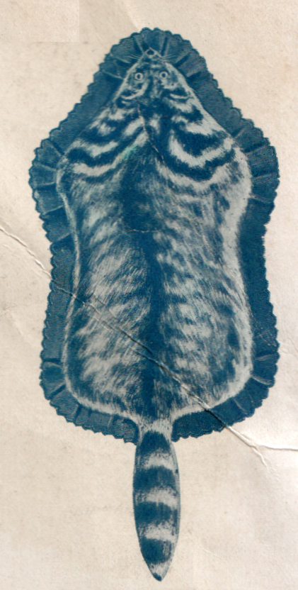 The Fur House Max Neuburger & Co, No 598 Broadway, New York, Season 1910-11 (cut) The description says Australian ringtail. It looks like civet cat!